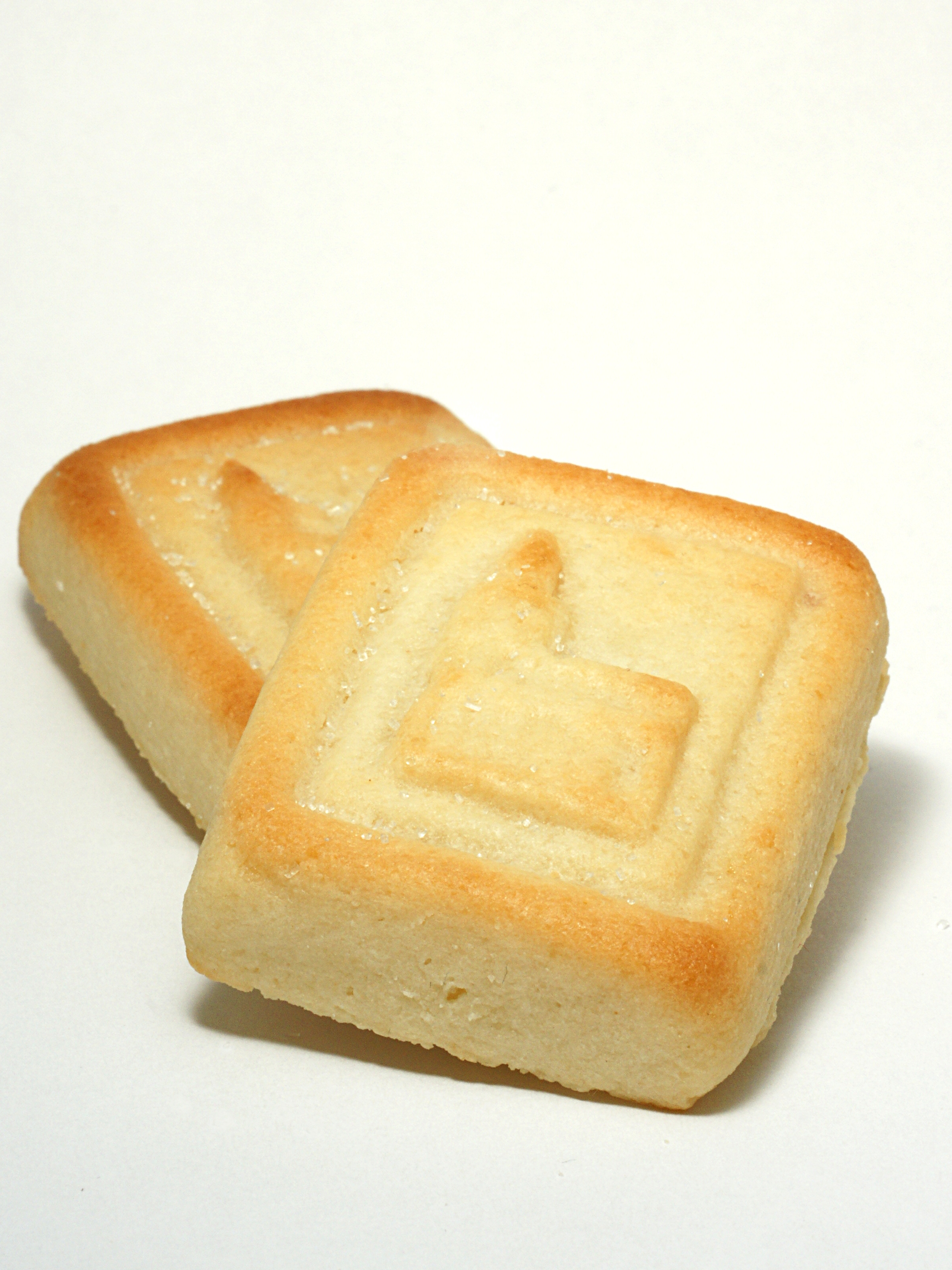 „Frankfurter Brenten“